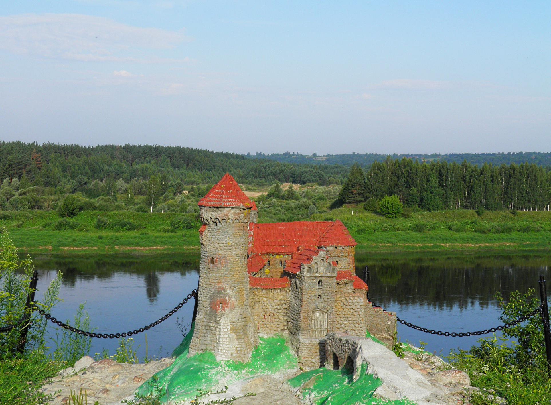 Scale model of Dinaburga Castle overlooking Daugava River